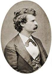 Mark Twain, American writer. Photograph, c 1870.